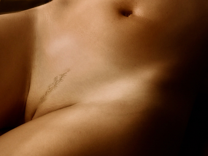 woman with pubic hair landing strip or French or partial Brazilian style